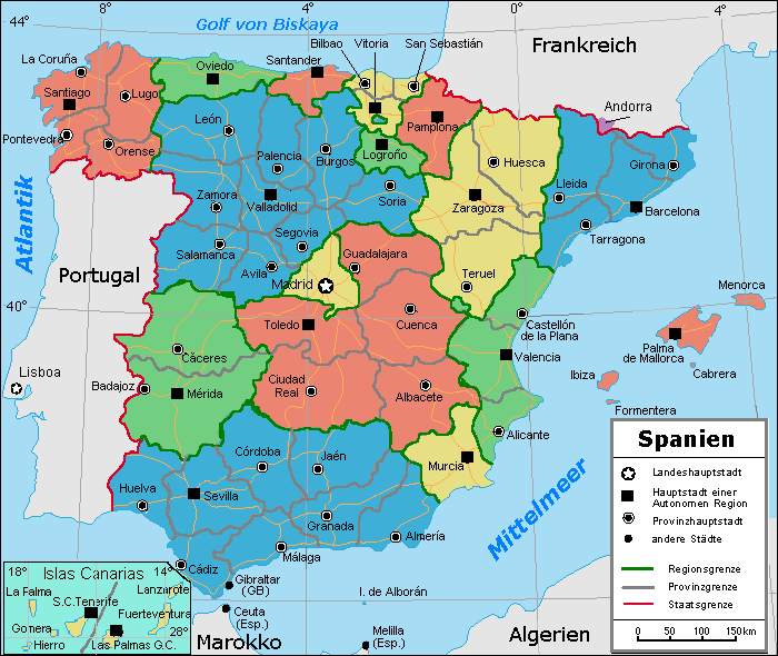 The 50 provinces and 17 autonomous regions of Spain